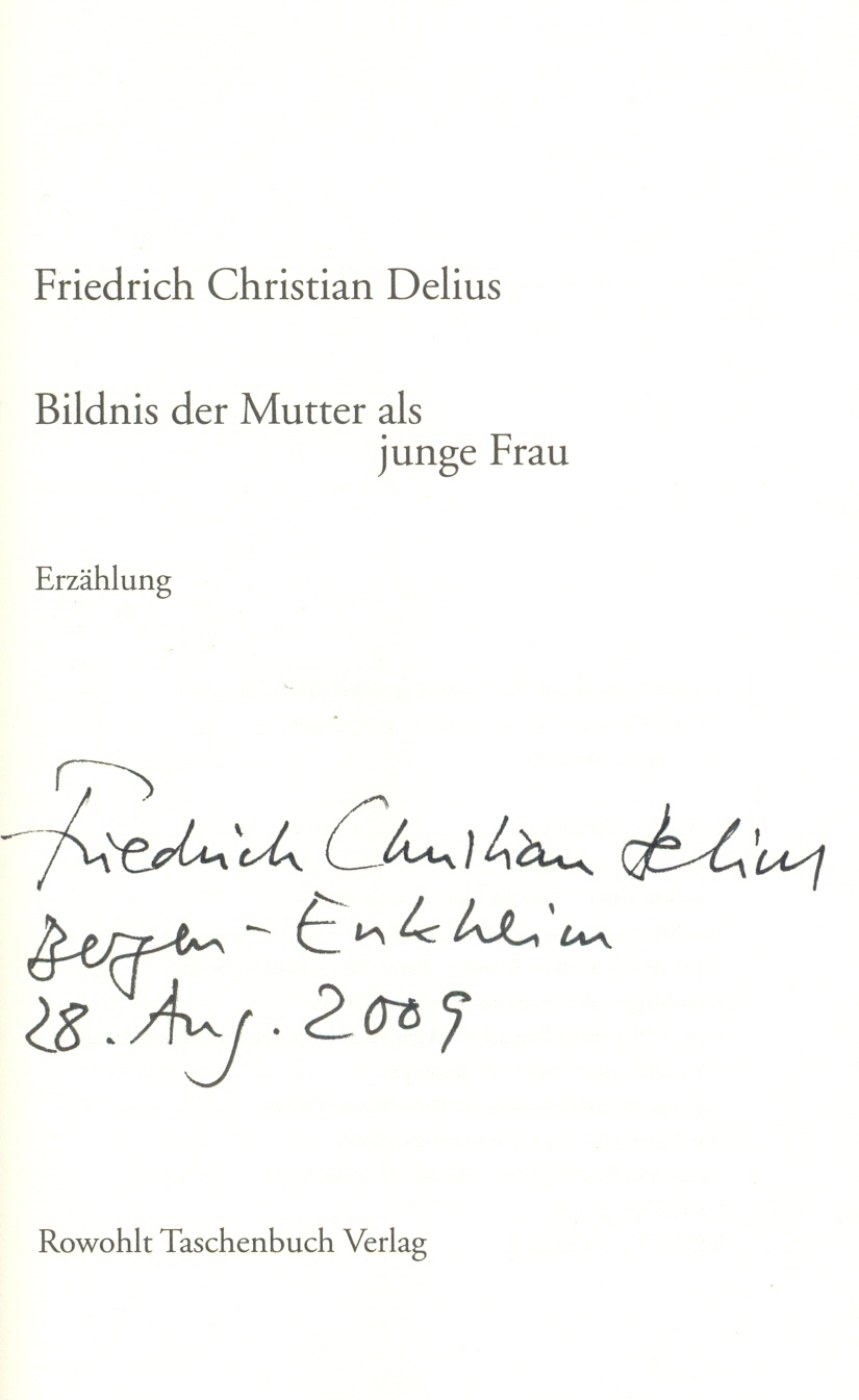 Autograph from F.C. Delius